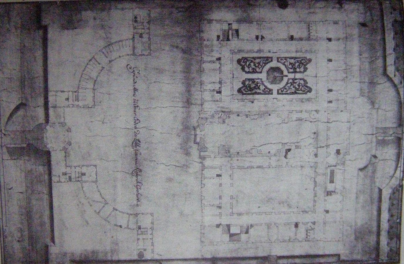 The plan of ground floor of the Saint Gotthard Abbey (II)